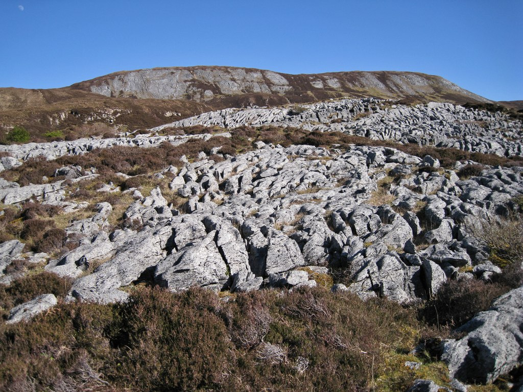 Limestone pavement on Bheinn Shuardail. This area of exposed limestone lies on the lower west-facing slope of the Bheinn. near to Broadford/An t-Àth Leathann, Highland, Great Britain